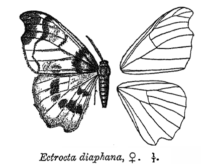 Female Ectrocta diaphana Hampson, [1893], upperside and wing venation